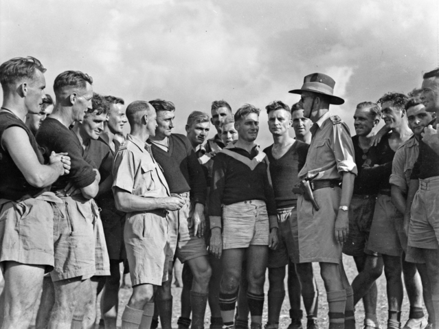 Officers chatting with players during a spell in the football match between South Australian and Tasmanian members of the 2/3 Machine Gun Battalion. Identified are TX2483 Sergeant (Sgt) Joseph Royden (Roy) Lette, C Company (11th from left, wearing white shorts and a jersey with a white V); and SX500503 (SX6962) Lieutenant Colonel Arthur Seaforth Blackburn, VC, Commanding Officer 2/3 Machine Gun Battalion (14th from left, wearing his slouch hat and First World War German Luger pistol in holster). Sgt Lette had been a notable Australian Rules footballer with the City Club, Launceston,Tas. He died of wounds on 4 March 1942 in Java, aged 25